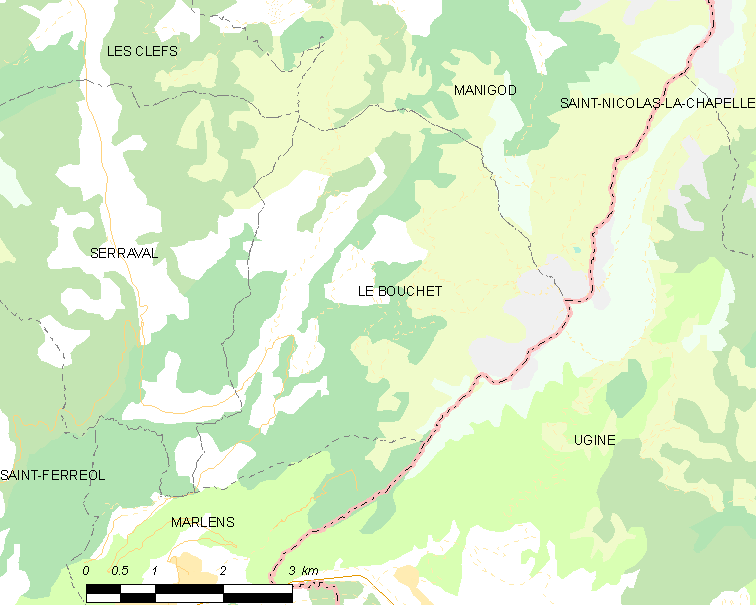 Map of French municipality Le Bouchet